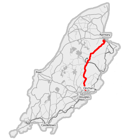 This map may be incomplete, and may contain errors. Don't rely solely on it for navigation.